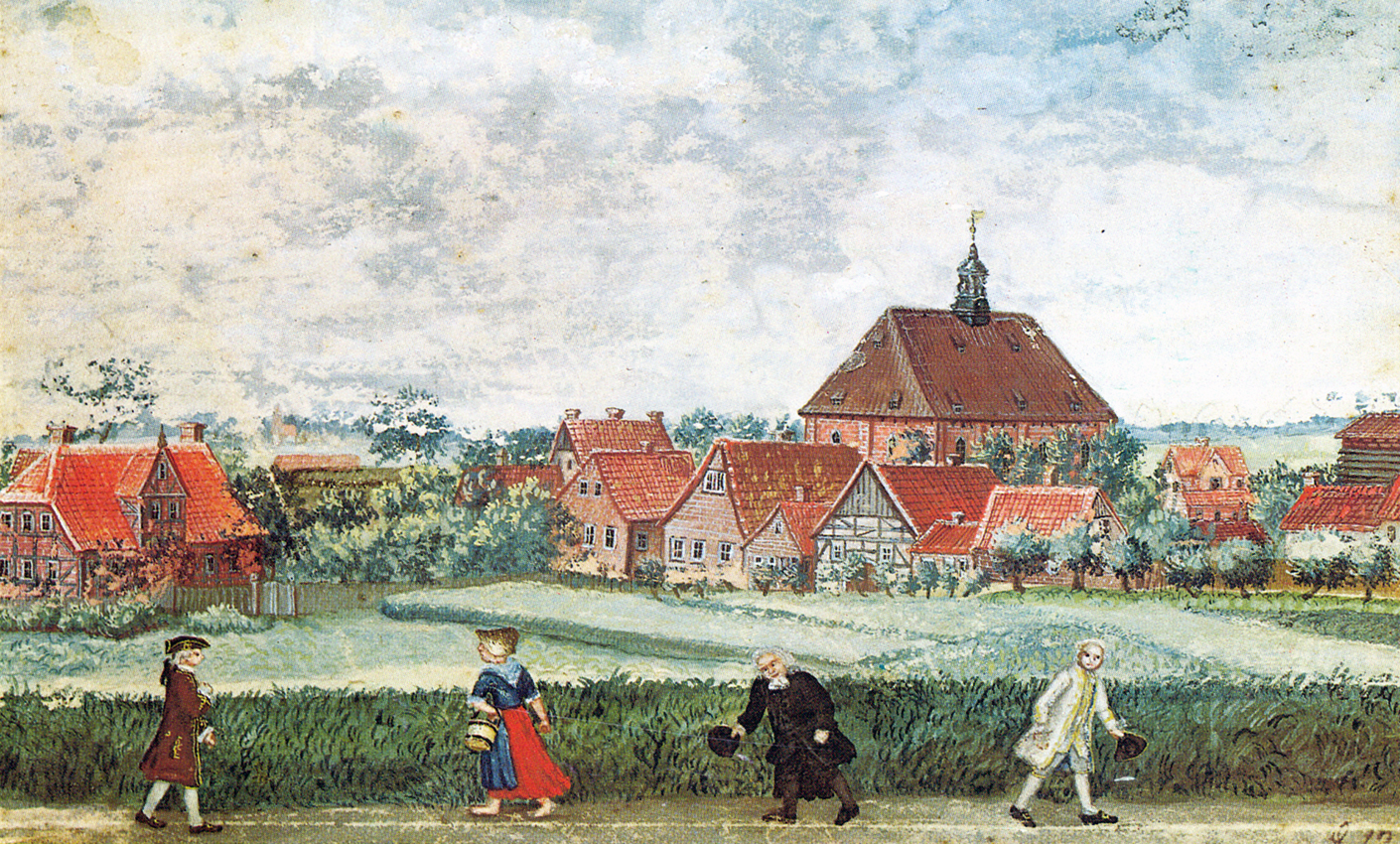 the Remberti-Vorstadt (the “Remberti village”) outside of Bremen, Germany, with the St. Remberti church (built 1738) around 1780.